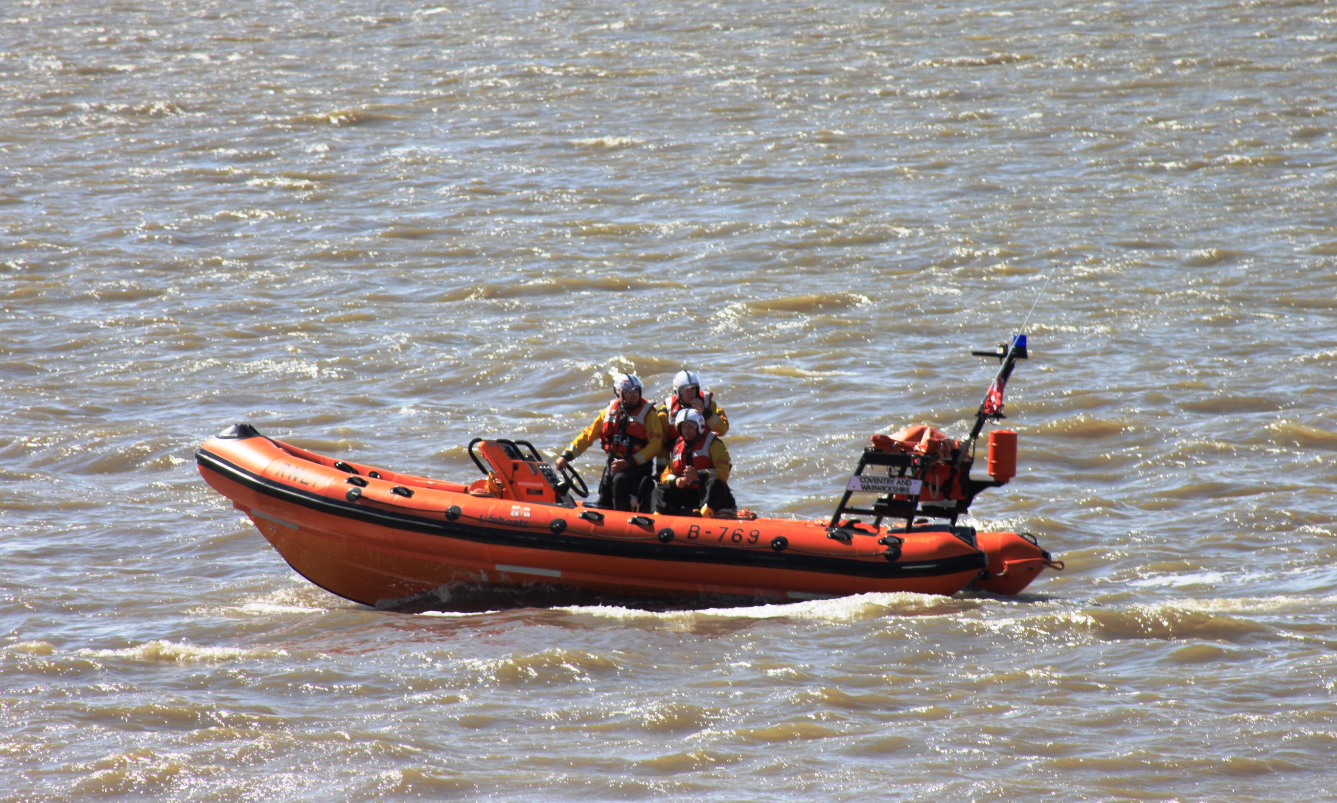 Weston-super-Mare's B Class lifeboat B-769 Coventry and Warwickshire cruising off Anchor Head.